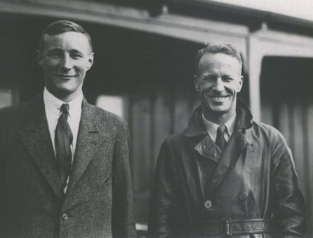 Noted Australian aviator, Charles Kingford Smith, was the first person to fly solo from Australia to New Zealand in 1928.